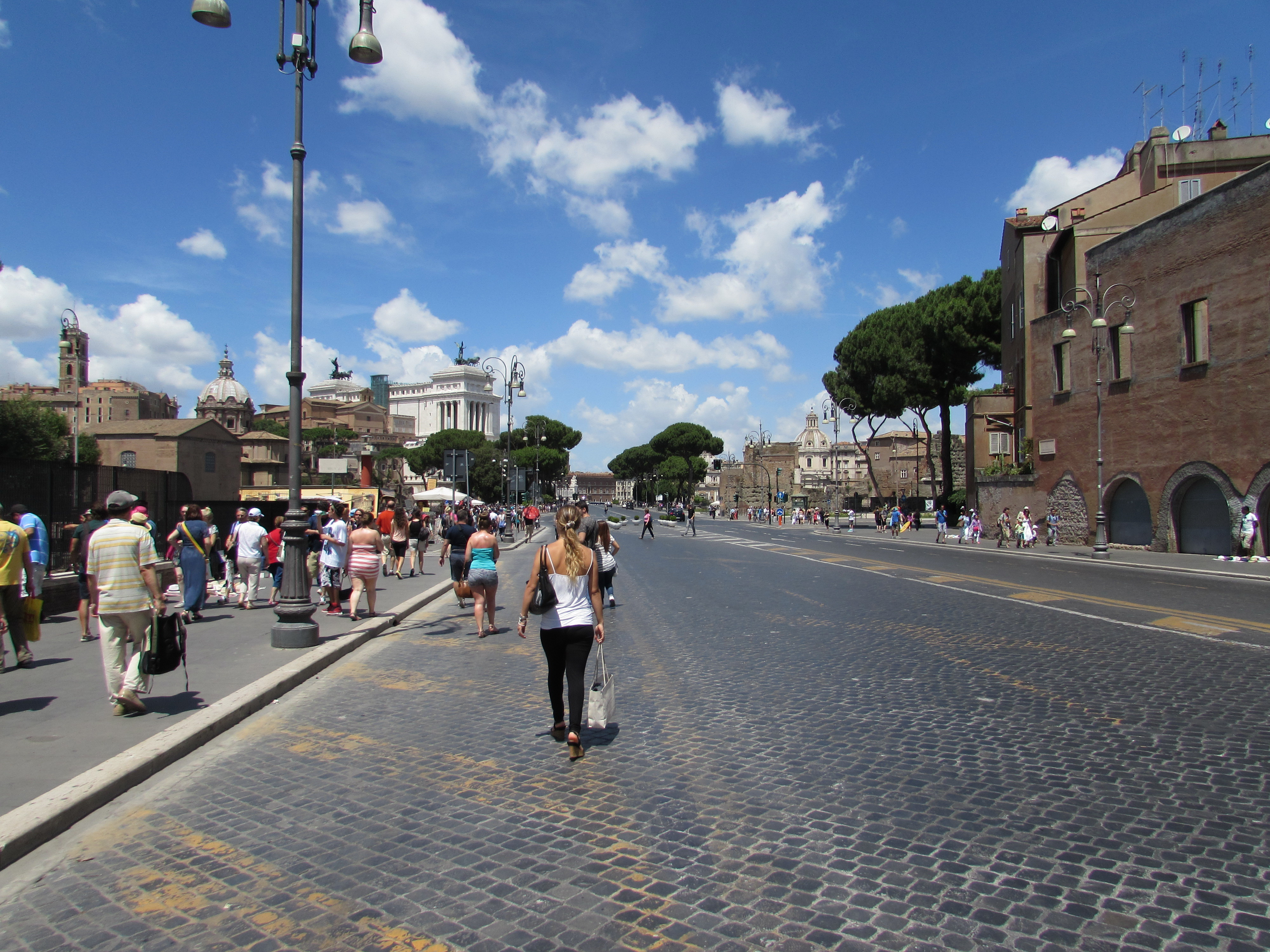 Imperial Forums (Rome)